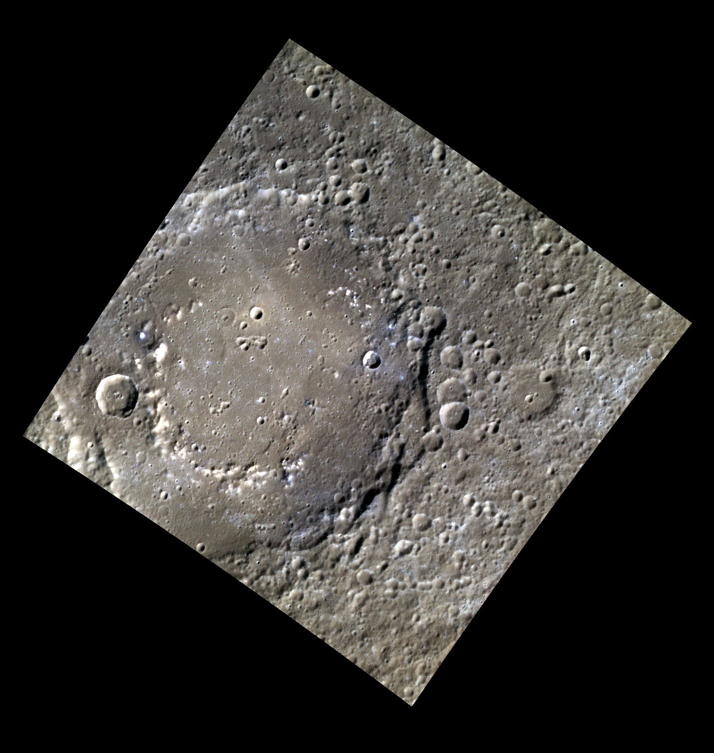 Date acquired: April 02, 2012 Image Mission Elapsed Time (MET): 241878696, 241878688, 241878692 Image ID: 1597093, 1597091, 1597092 Instrument: Wide Angle Camera (WAC) of the Mercury Dual Imaging System (MDIS) WAC filters: 9, 7, 6 (996, 748, 433 nanometers) in red, green, and blue Center Latitude: 38.89° Center Longitude: 269.7° E Resolution: 207 meters/pixel Scale: The basin that dominates this image, named Al Hamadhani, is 168 km (104 mi) across. Incidence Angle: 54.3° Emission Angle: 0.2° Phase Angle: 54.4° Of Interest: This image shows the Al Hamadhani impact basin. In this three color image, color is analogous to composition. Some parts of the basin appear more blue than the surrounding material, indicating compositional variation across the basin itself. This variation in composition makes this basin an interesting target for scientists. The basin is named for Badi' al-Zaman al-Hamadhani, an Iranian author who lived over a thousand years ago. He is best known for his collection of stories featuring a rogue named Abu al-Fath al-Iskandari. He is also known as "the wonder of the age." This image was acquired as part of MDIS's high-resolution 3-color imaging campaign. The 3-color campaign is a major mapping activity in MESSENGER's extended mission. It complements the 8-color base map (at an average resolution of 1 km/pixel) acquired during MESSENGER's primary mission by imaging Mercury's surface in a subset of the color filters at the highest resolution possible. The three narrow-band color filters are centered at wavelengths of 430 nm, 750 nm, and 1000 nm, and image resolutions generally range from 100 to 400 meters/pixel in the northern hemisphere.